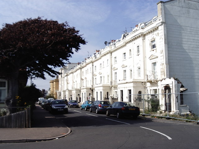 Orwell Road, Dovercourt Orwell Road has more the look of a street in the Bayswater area of London than somewhere on the Essex Coast. It would have been built sometime in the 1850s at a time when Dovercourt was being promoted as a new resort.